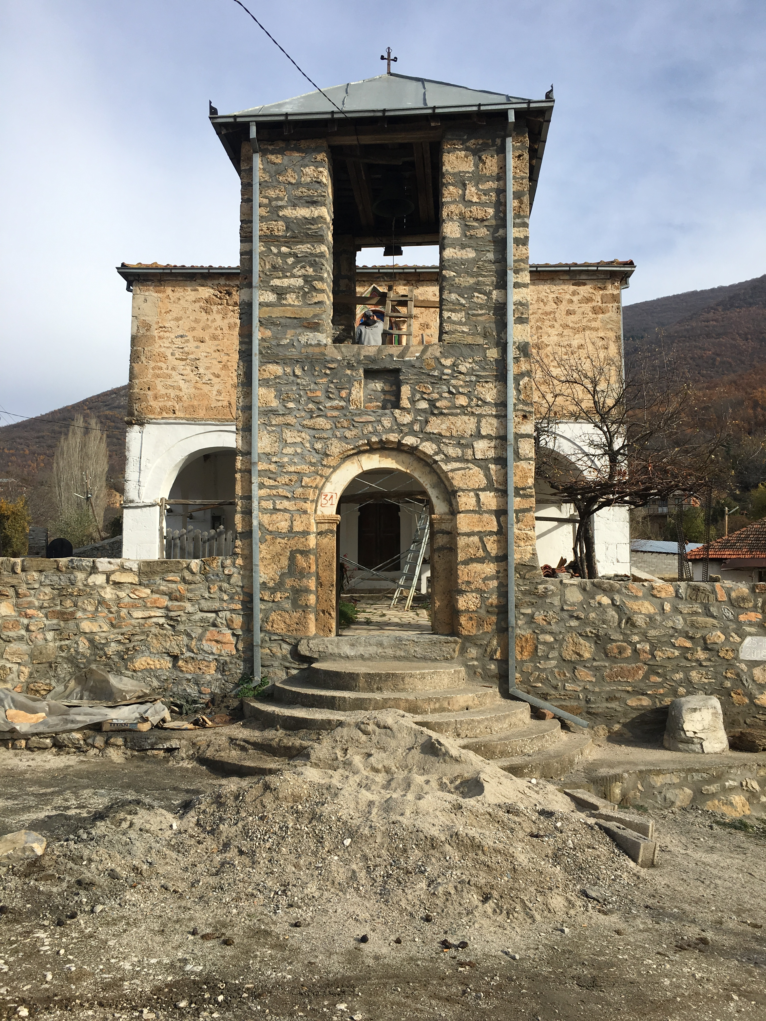 St. Nicholas Church in the village of Golem Radobil